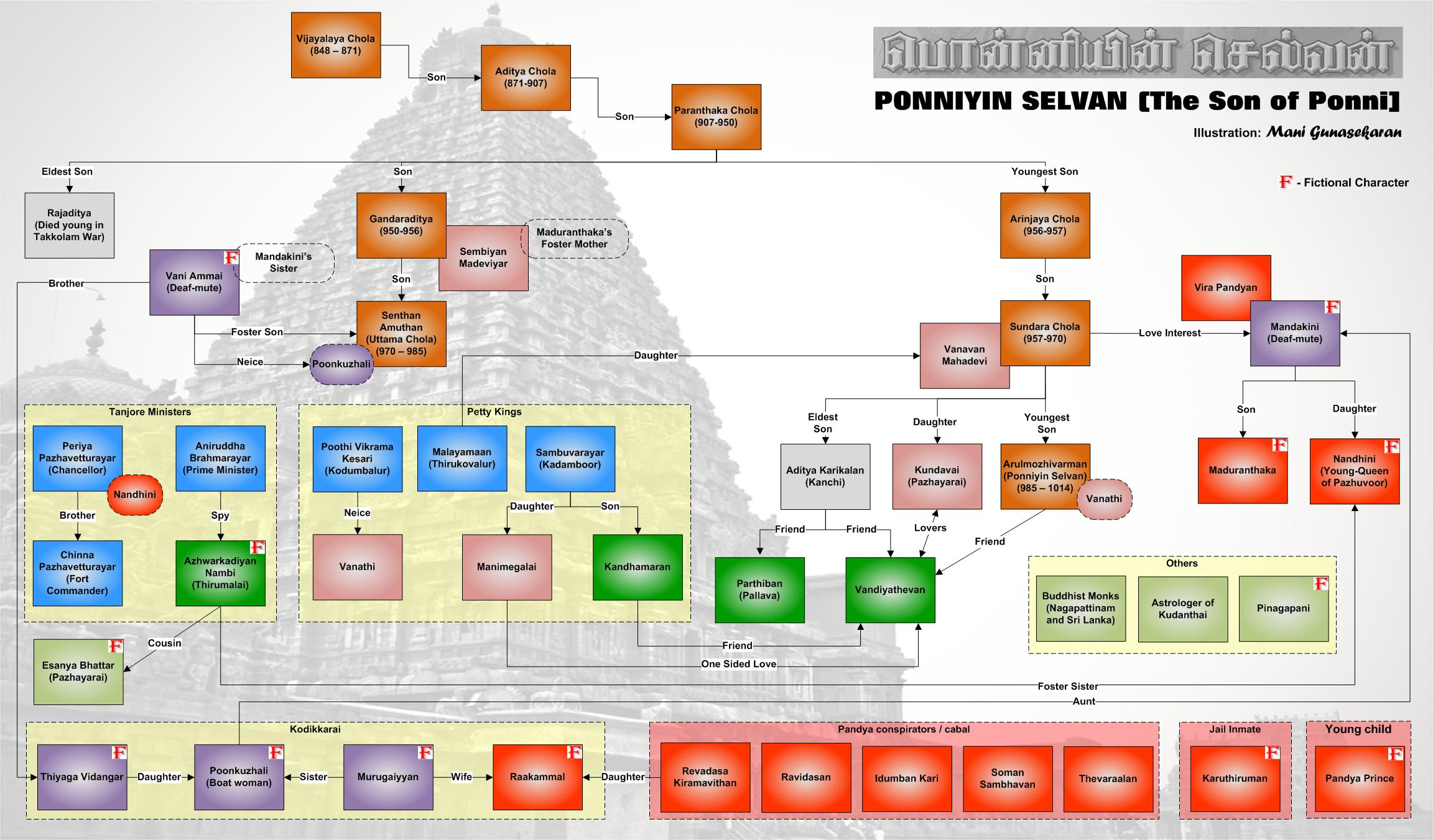 A visual representation of the family of characters involved in the Ponniyin Selvan collection of novels.